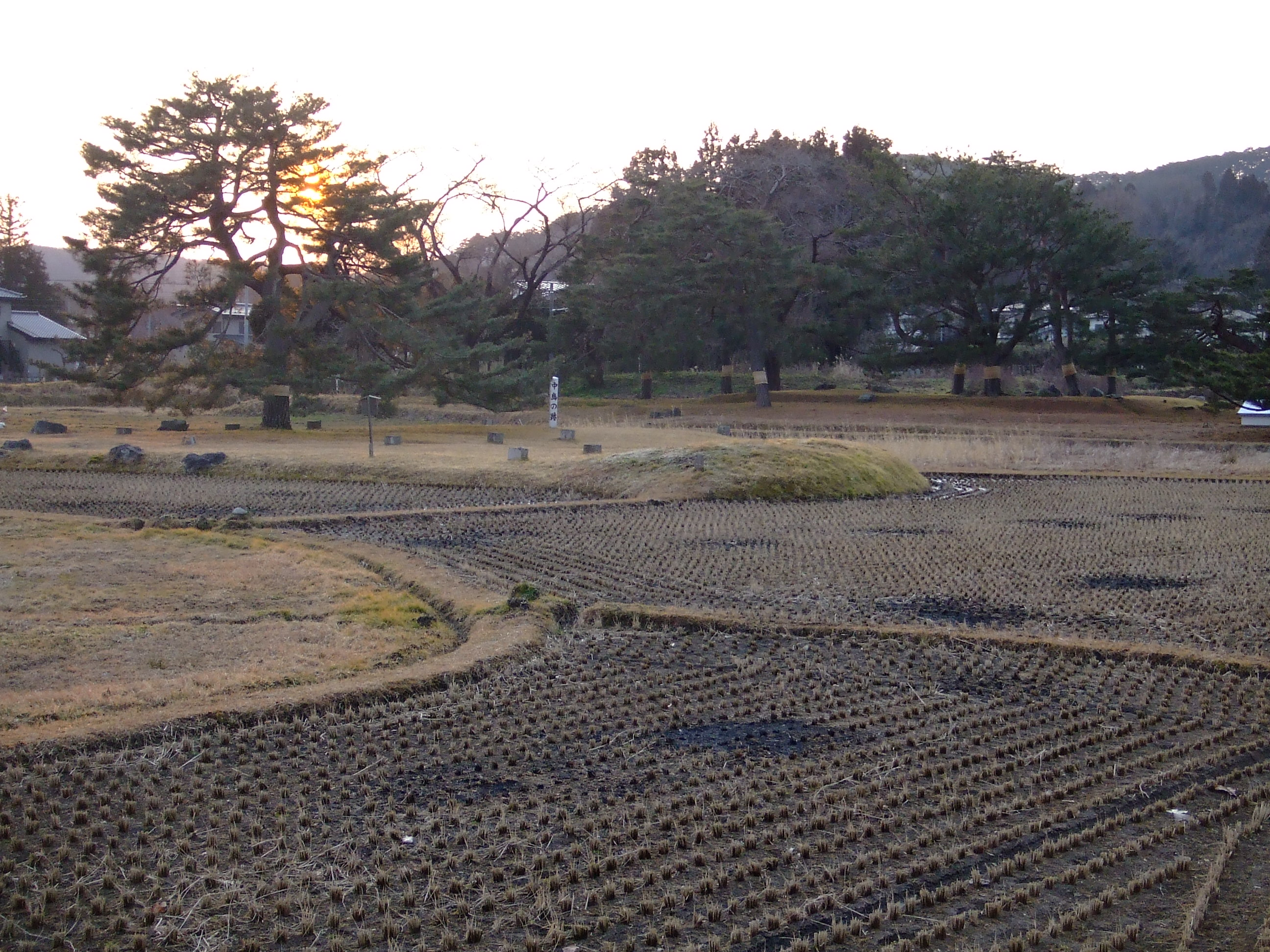 The ruins of the Muryōkō-in Temple in Hiraizumi, Iwate Prefecture, Japan.